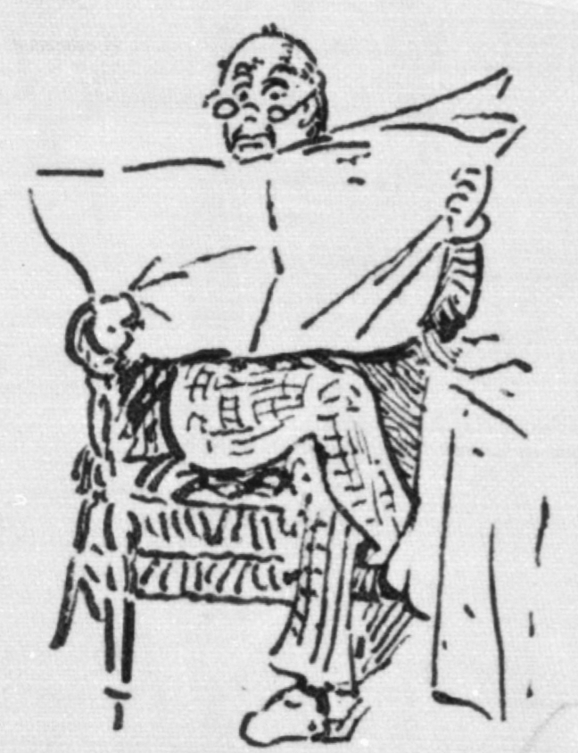 Shows some historic Canterbury characters: Wynn Williams, Dr McDonald, Dr Turnbull, Mr Lewis, Geo Oram of the Clarendon Hotel, Rowland Davis, John William Oram, Major Hornbrook, Mr W Guise Brittan, W B Percival, Joseph Brittan, Tom Goodyer and a `Fifties' [i.e. 1850s] milkman dressed in a smock and with a yoke over his shoulders.